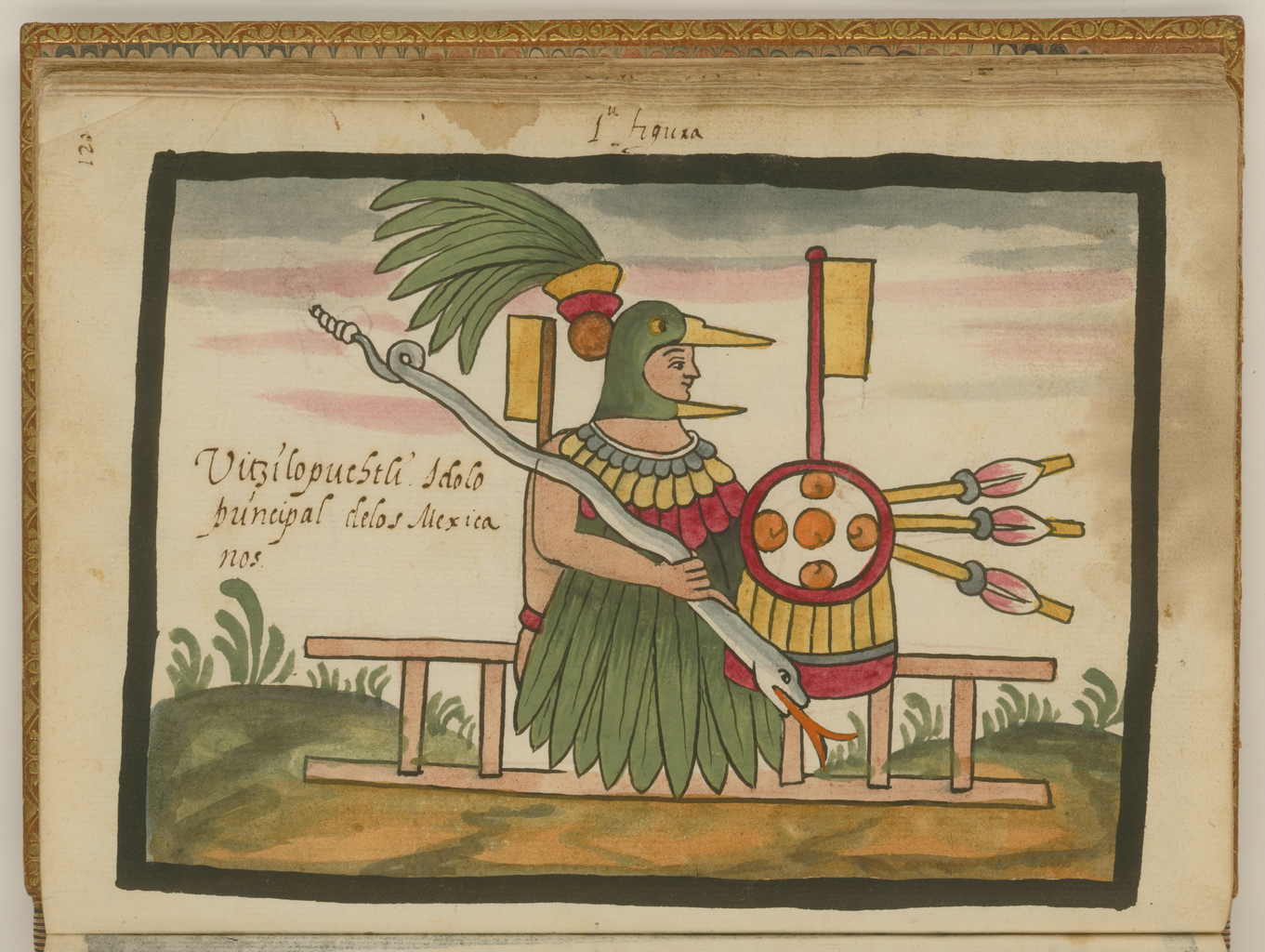 The Tovar Codex, attributed to the 16th-century Mexican Jesuit Juan de Tovar, contains detailed information about the rites and ceremonies of the Aztecs (also known as Mexica). The codex is illustrated with 51 full-page paintings in watercolor. Strongly influenced by pre-contact pictographic manuscripts, the paintings are of exceptional artistic quality. The manuscript is divided into three sections. The first section is a history of the travels of the Aztecs prior to the arrival of the Spanish. The second section, an illustrated history of the Aztecs, forms the main body of the manuscript. The third section contains the Tovar calendar. This illustration, from the second section, depicts Huitzilopochtli, holding a turquoise serpent or rattlesnake in one hand and a shield with the five directions of space and three arrows in the other. Huitzilopochtli wears a hummingbird mask or helmet with feathered quetzal crown, which is identified with the two Moctezumas (or Montezumas). Huitzilopochtli, whose name means "Blue hummingbird on the left," was the Aztec god of the sun and war. The xiuhcoatl (turquoise or fire serpent) was his mystical weapon. Aztec gods; Aztec mythology; Aztecs; Codex; Indians of Mexico; Indigenous peoples; Mesoamerica; Tovar Codex